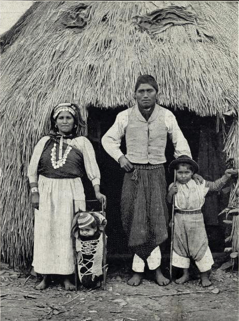 A family of Araucauians (Chile). Showing a baby strapped in a native cradle.